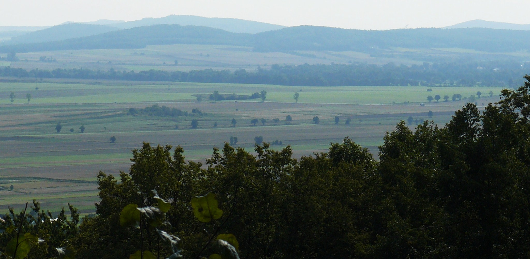 View from Bazaltowa Top.